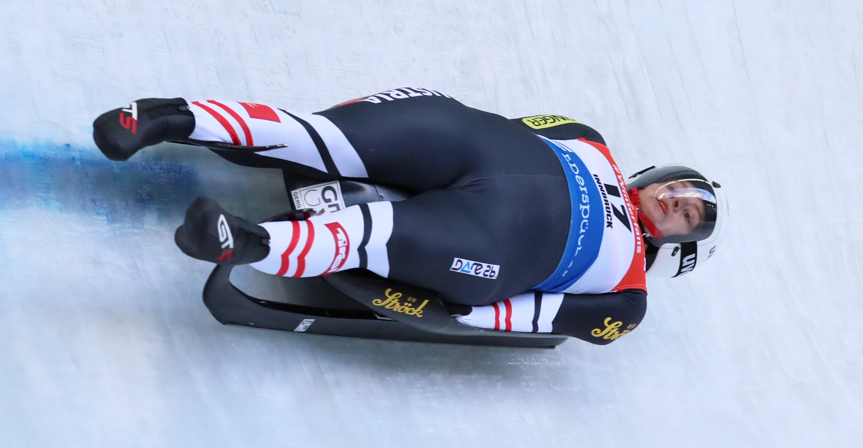 Women's World Cup race at the 2018/19 Luge World Cup in Innsbruck-Igls